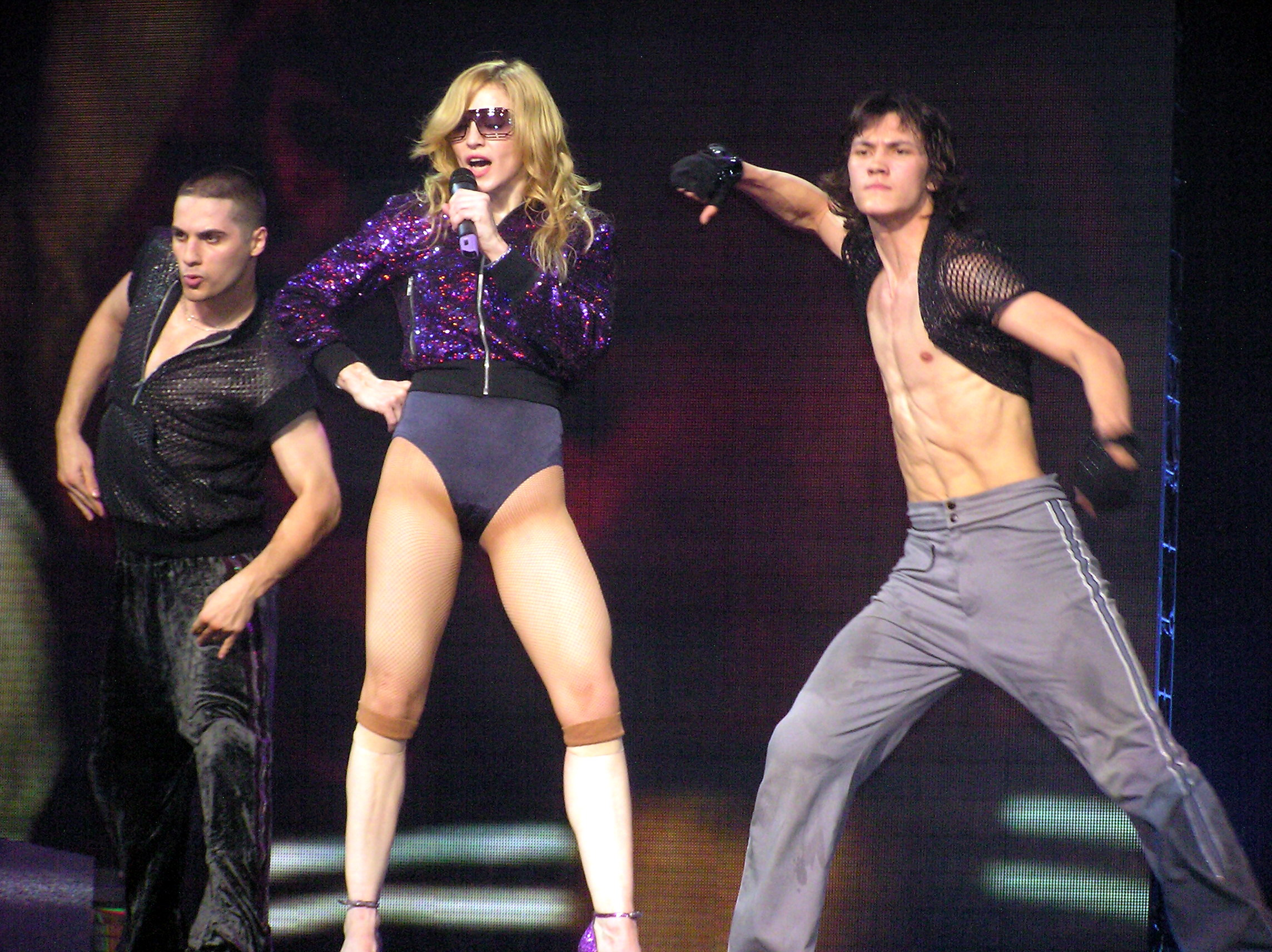 Madonna concert in Fresno